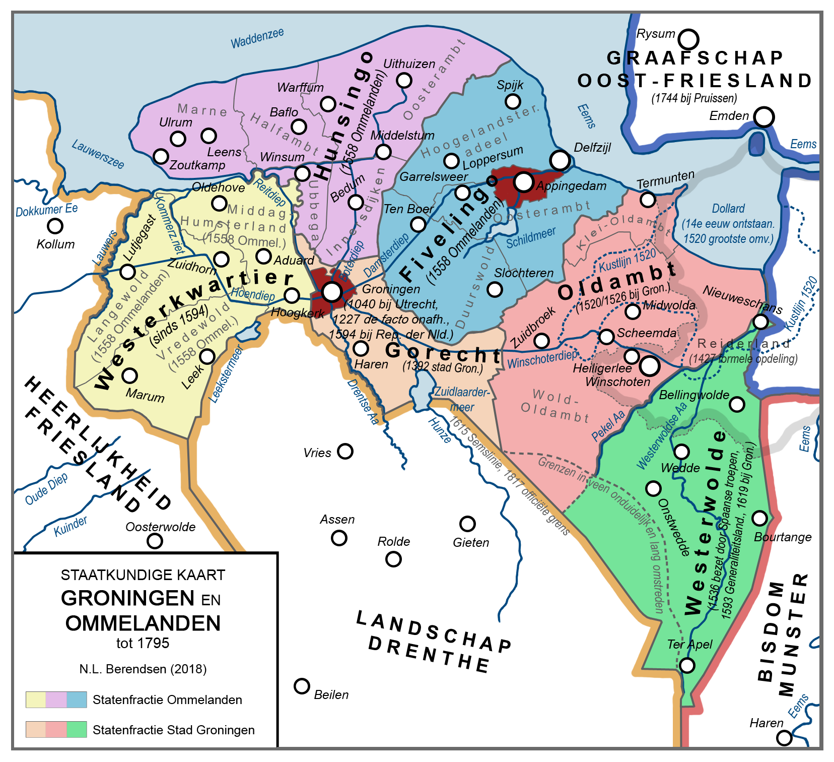 Map of the constitution of Groningen and the Ommelanden before 1795 (French invasion of the Netherlands), depicting the internal borders of the districts and subdistricts, indications of the borders of the former Reiderland, the most notable towns and water ways in the 17th and 18th century, the coastline of the Dollard in 1520 (largest extent), and indicates in text some important historical constitutional events.